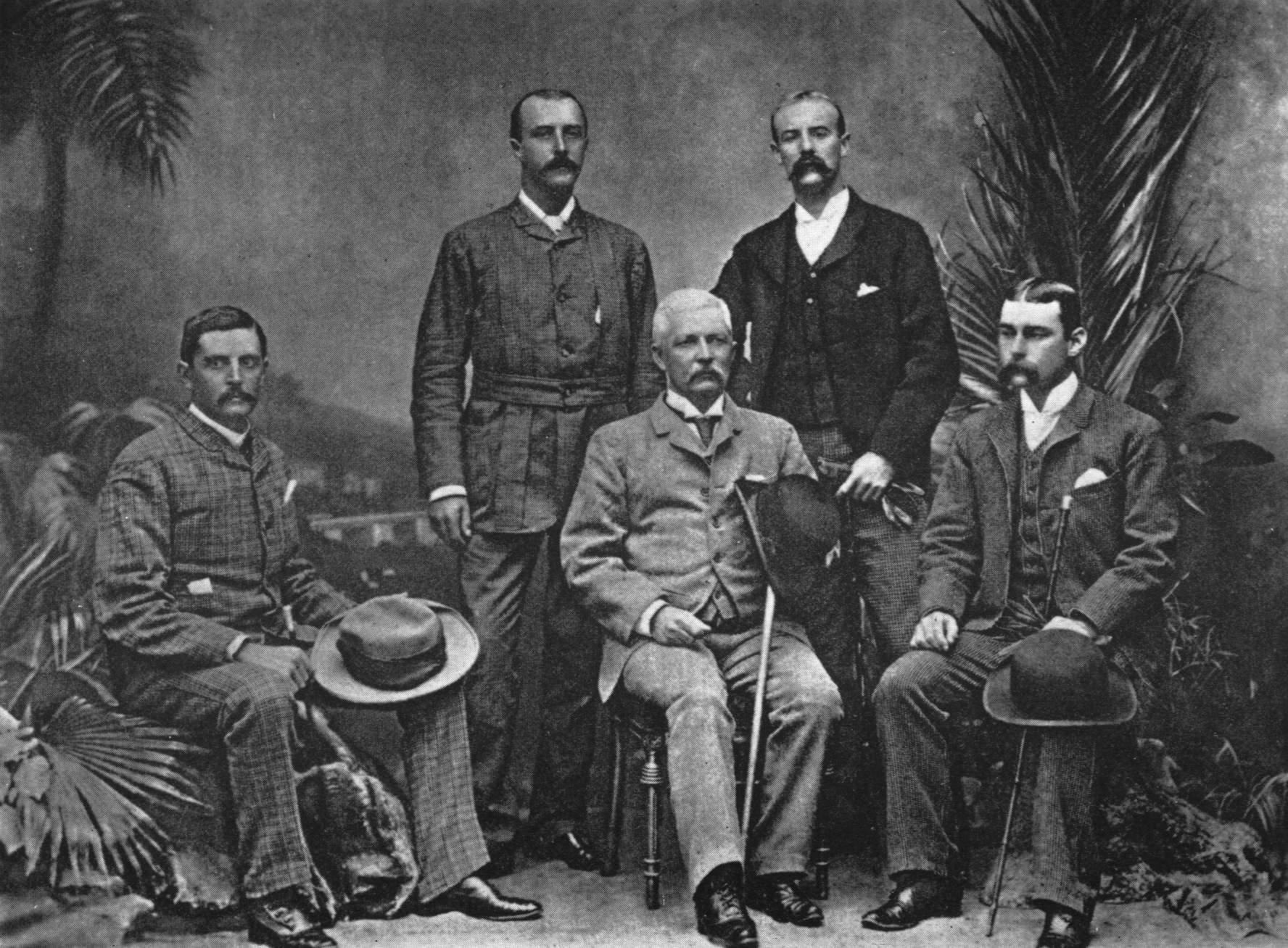 Henry Morton Stanley with the officers of the Advance Column of the Emin Pasha Relief Expedition, taken in Cairo 1890 after the expedition. From the left : Dr. Thomas Heazle Parke, Robert H. Nelson, Henry M. Stanley, William G. Stairs, and Arthur J. M. Jephson